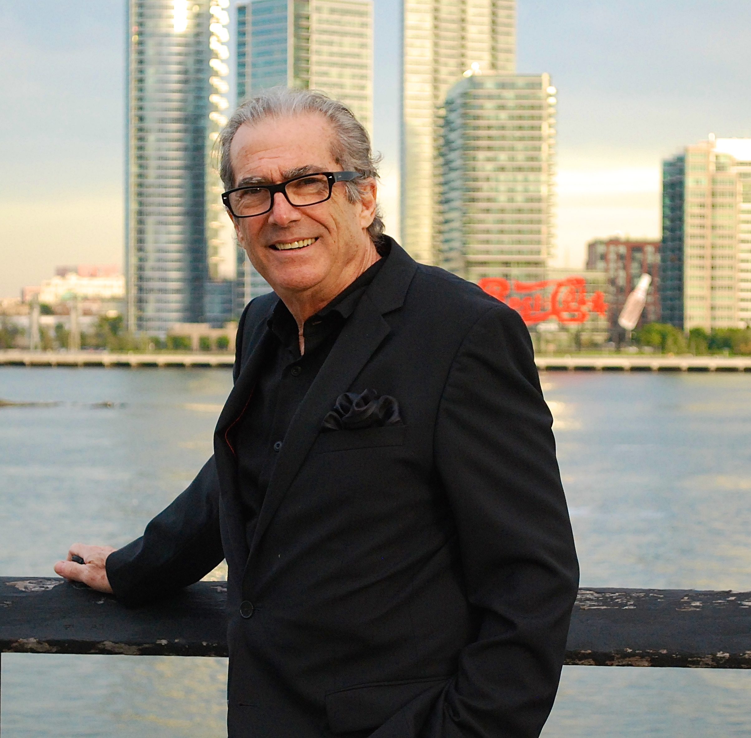 At UN Sculpture Garden